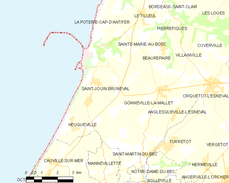 Map of French municipality Saint-Jouin-Bruneval